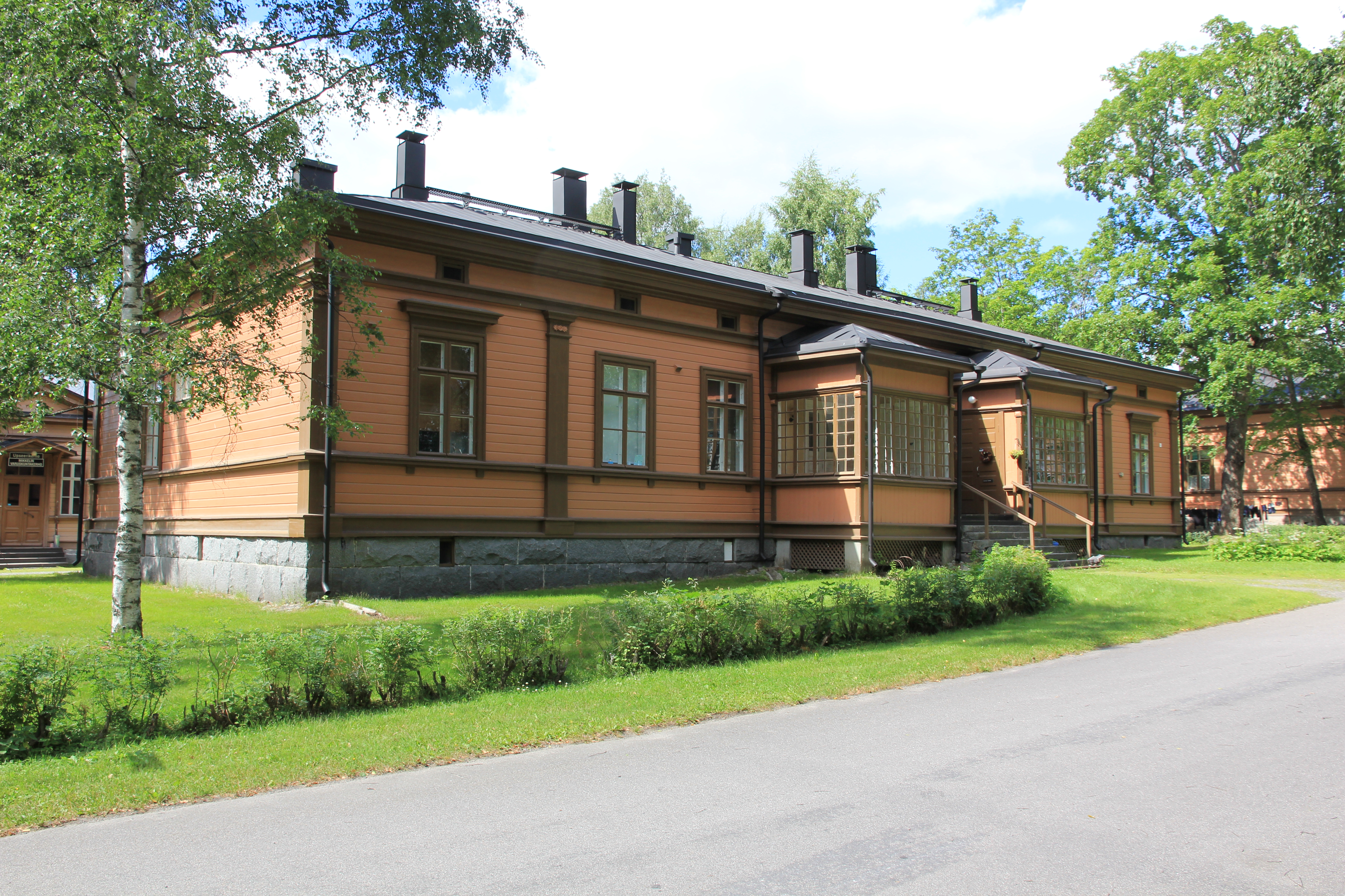 Barracks of the Mikkeli old garrison.